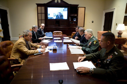 President George W. Bush speaks during a video teleconference with Vice President Dick Cheney, on screen, and military commanders in the Roosevelt Room of the White House, Saturday, Oct. 21, 2006. Pictured from left are National Security Advisor Stephen Hadley, Deputy National Security Advisor J.D. Crouch, Senior Advisor to the Secretary of State on Iraq David Satterfield, Secretary of Defense Donald Rumsfeld, U.S. Army General John Abizaid and Chairman Joint Chiefs of Staff U.S. Marine General Peter Pace. White House photo by Eric Draper